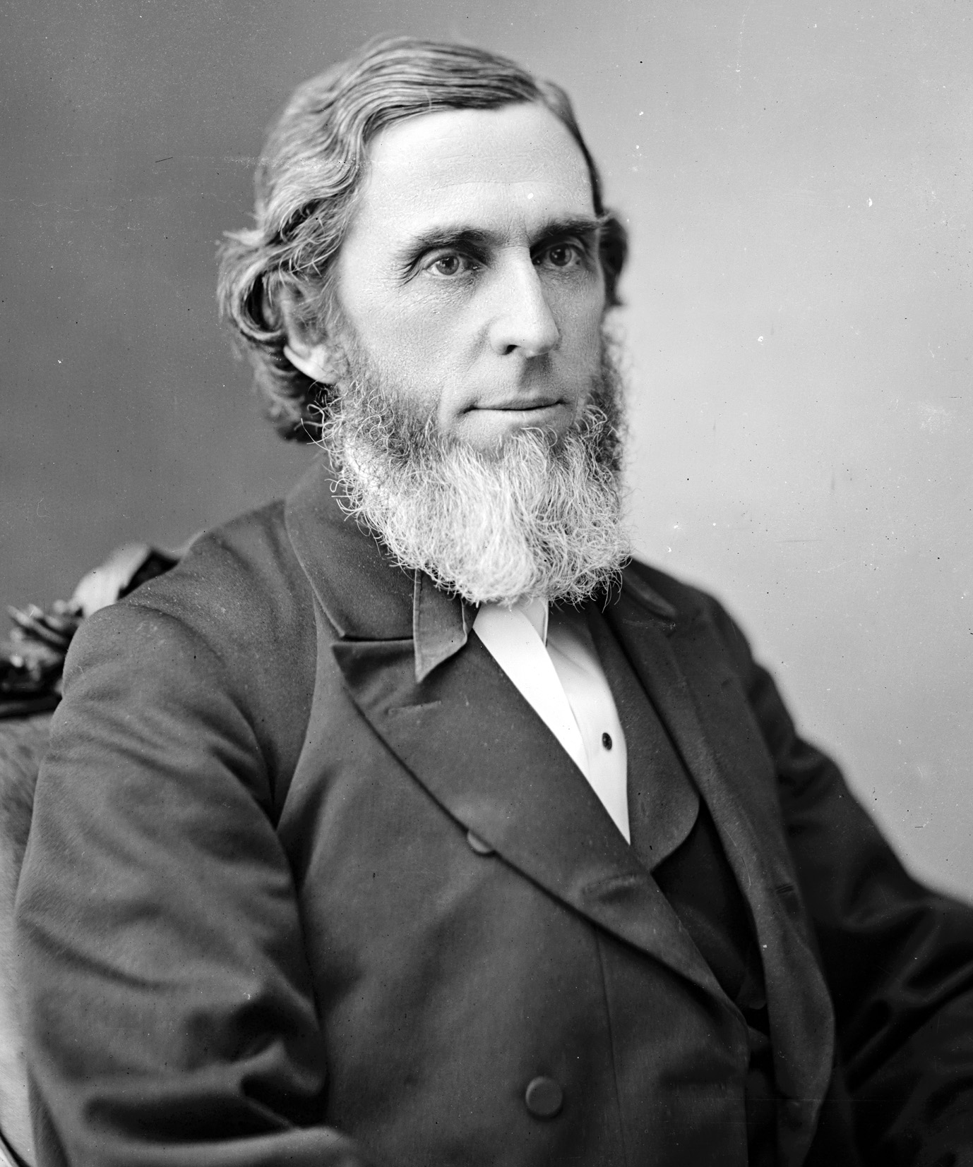 Joshua G. Hall, US Representative from New Hampshire